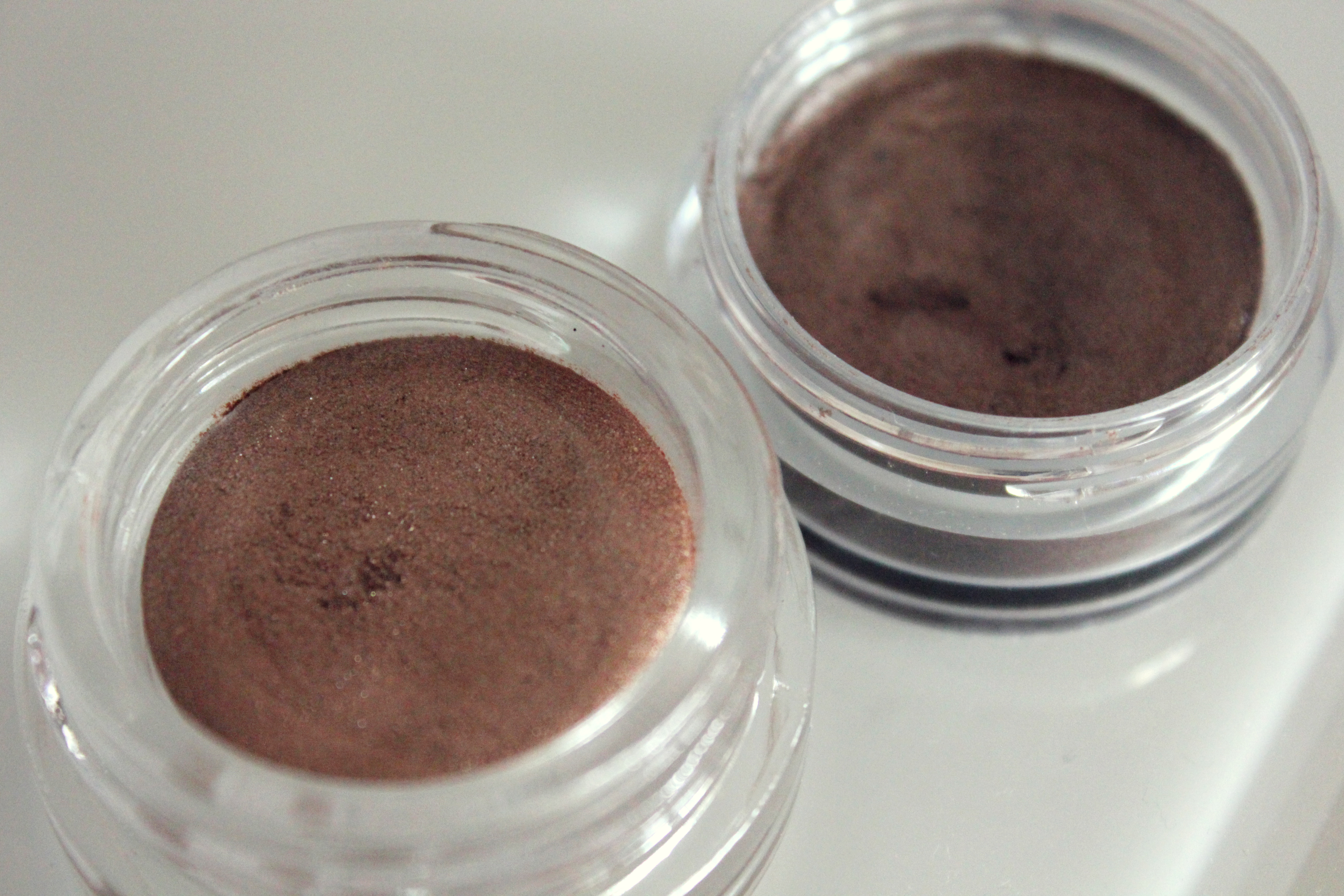 Cream eyeshadow